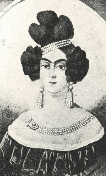 The portrait of Elena Sturza (1804-1854), the daughter of Ioniţă Sandu Sturdza and the wife of Grigore Alexandru Ghica